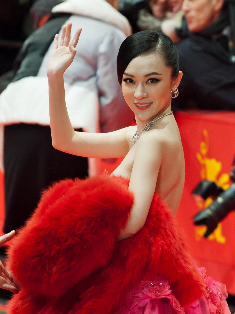 Chinese actress Huo Siyan, Opening of the 62nd Berlin International Film Festival.